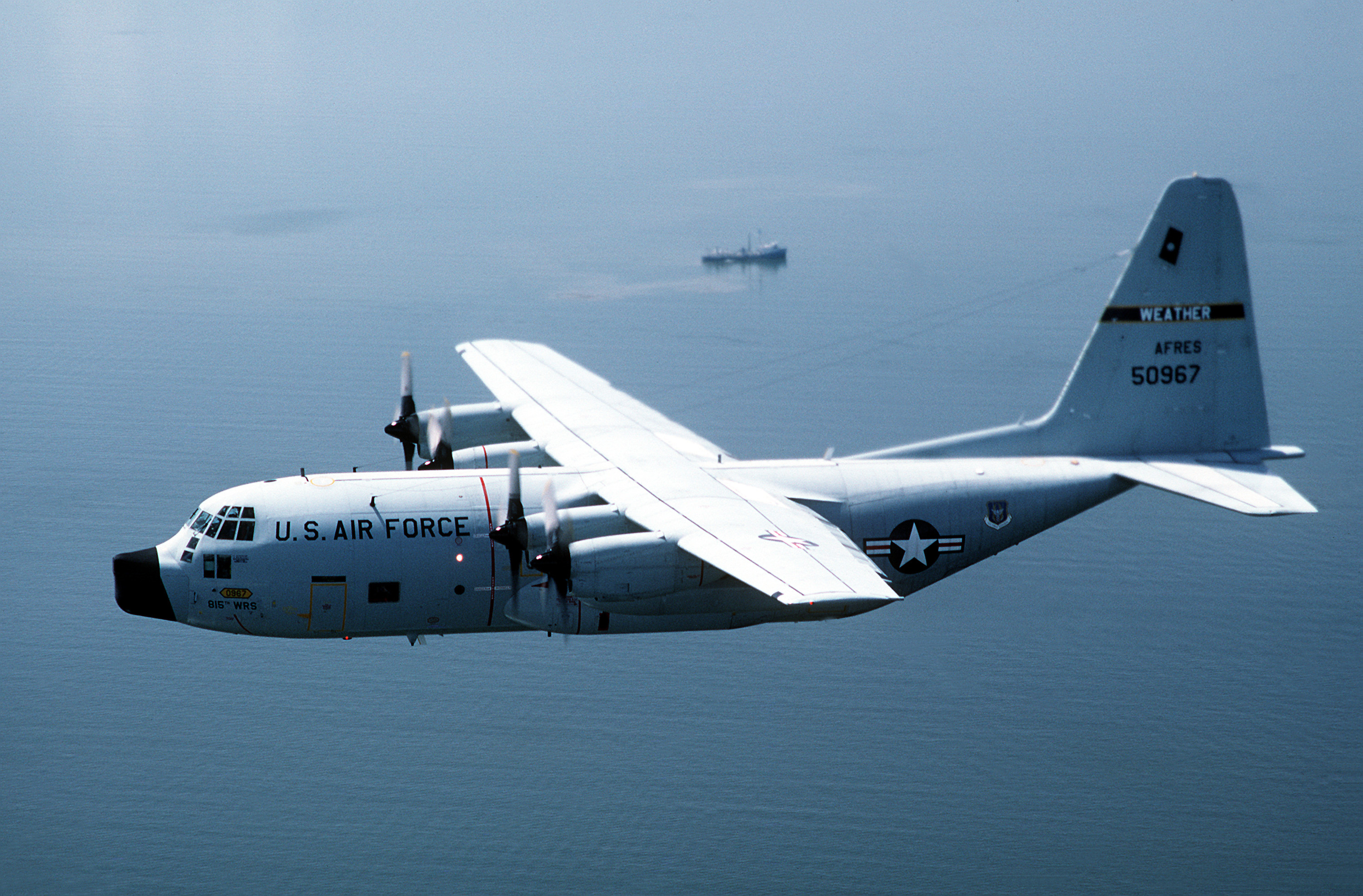 An air-to-air left side view of a WC-130H Hercules aircraft in-flight.